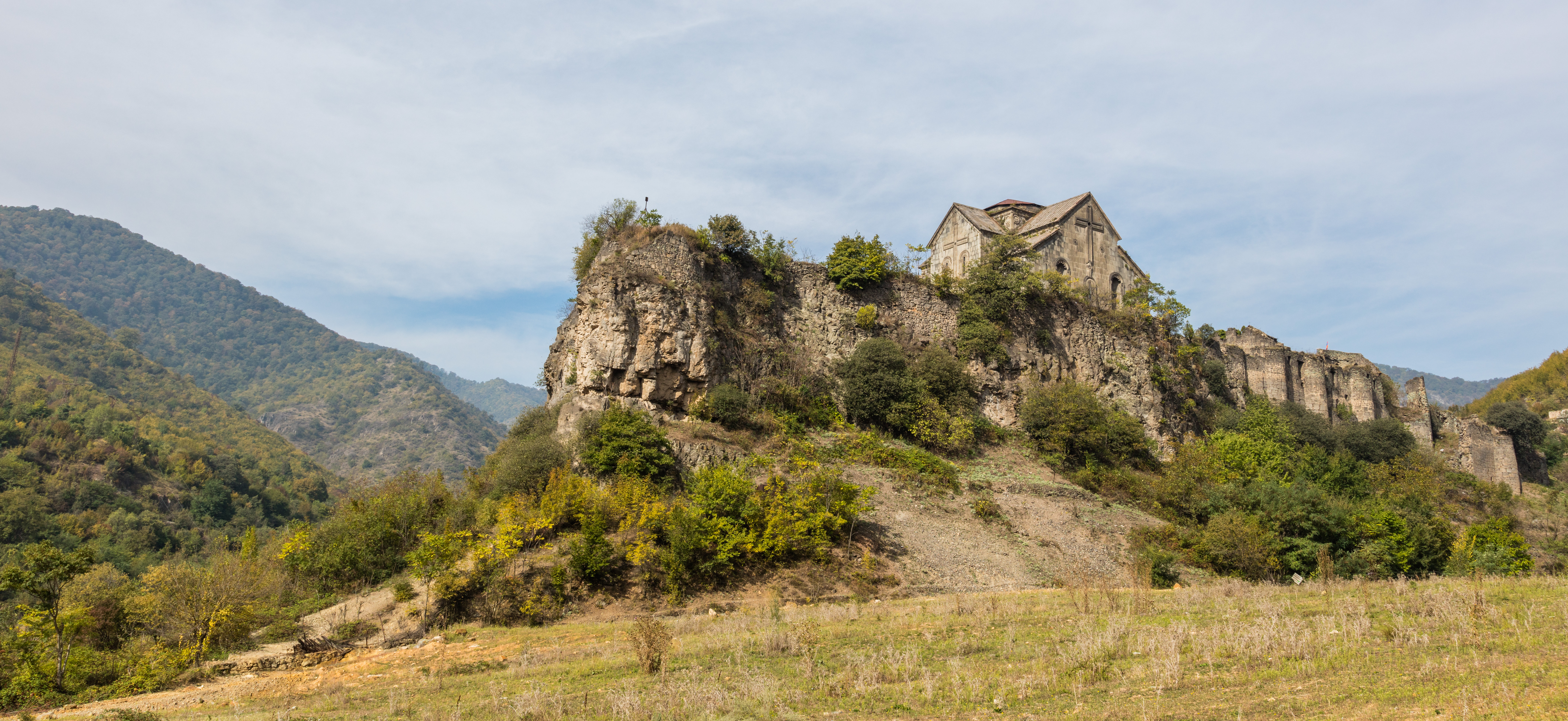 Akhtala Monastery, Armenia